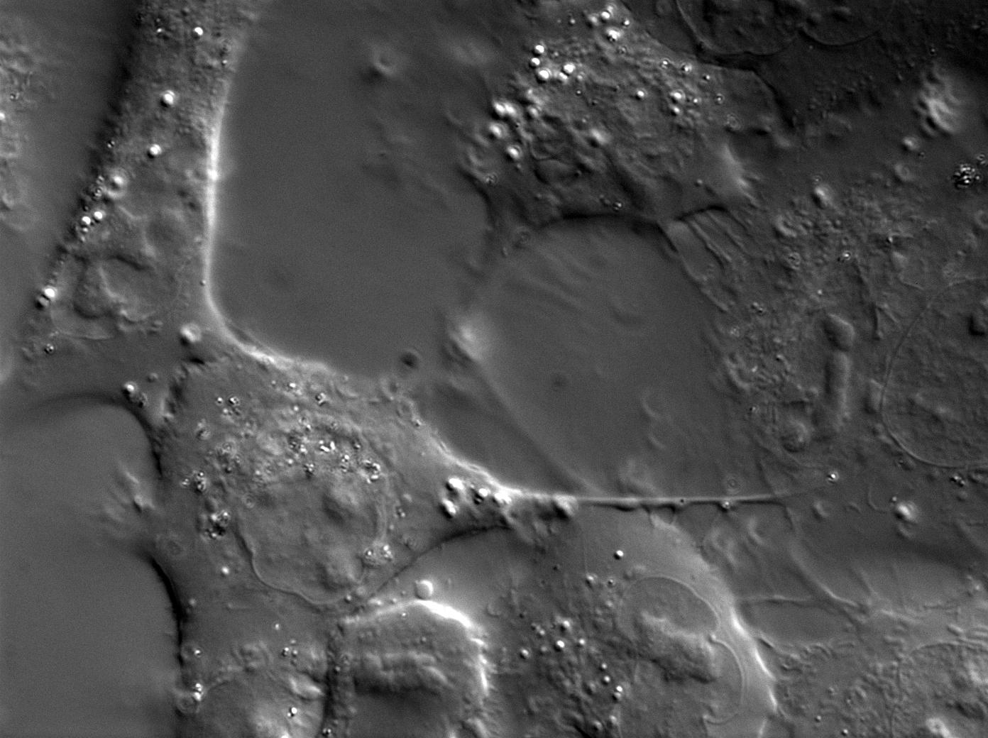 Intercellular connections in a549 cells. Gold nanorods (25x73 nm) are present.